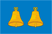 Makariev (Kostroma oblast), flag